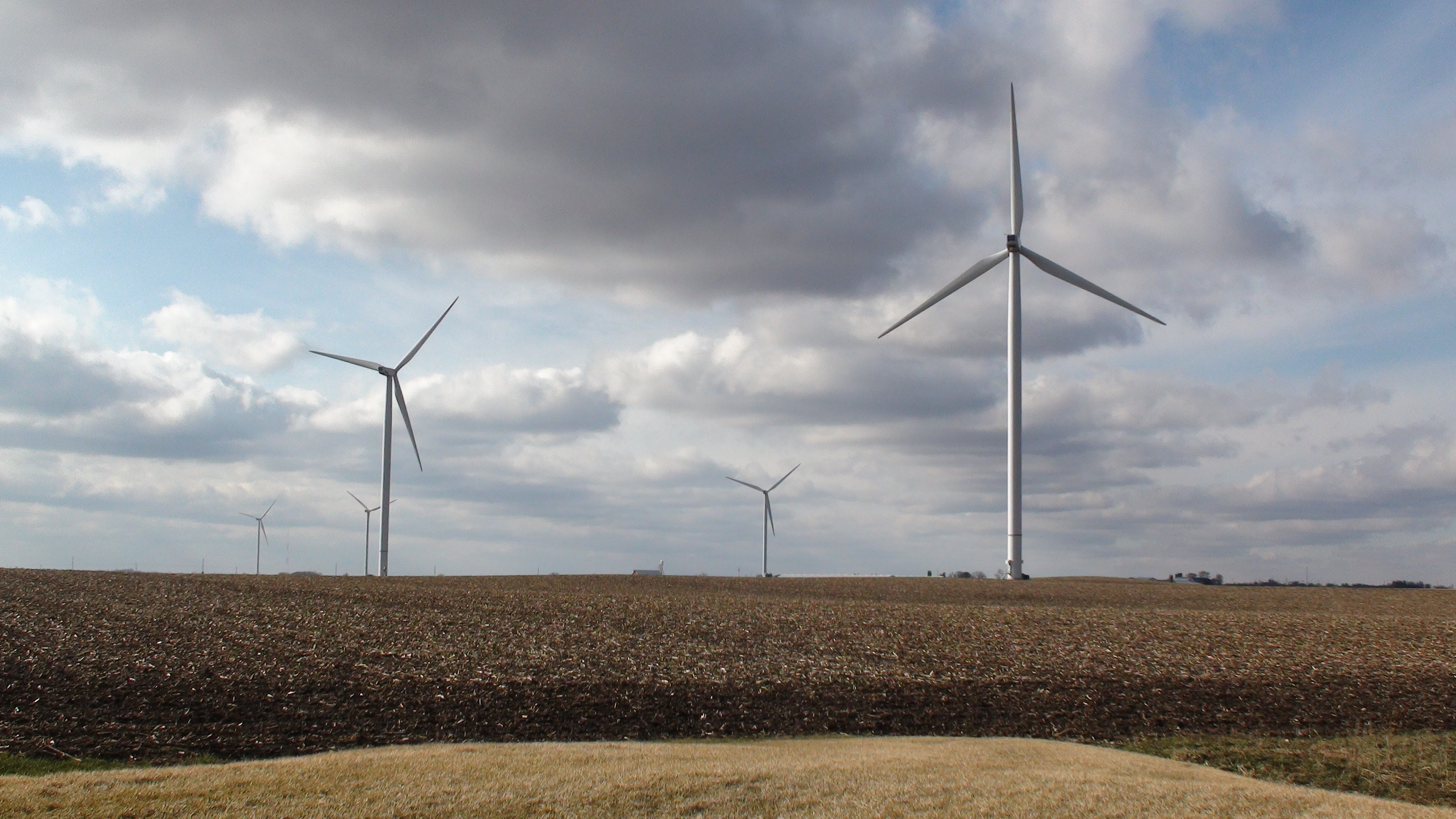 Wind turbines in rural Iowa, United States